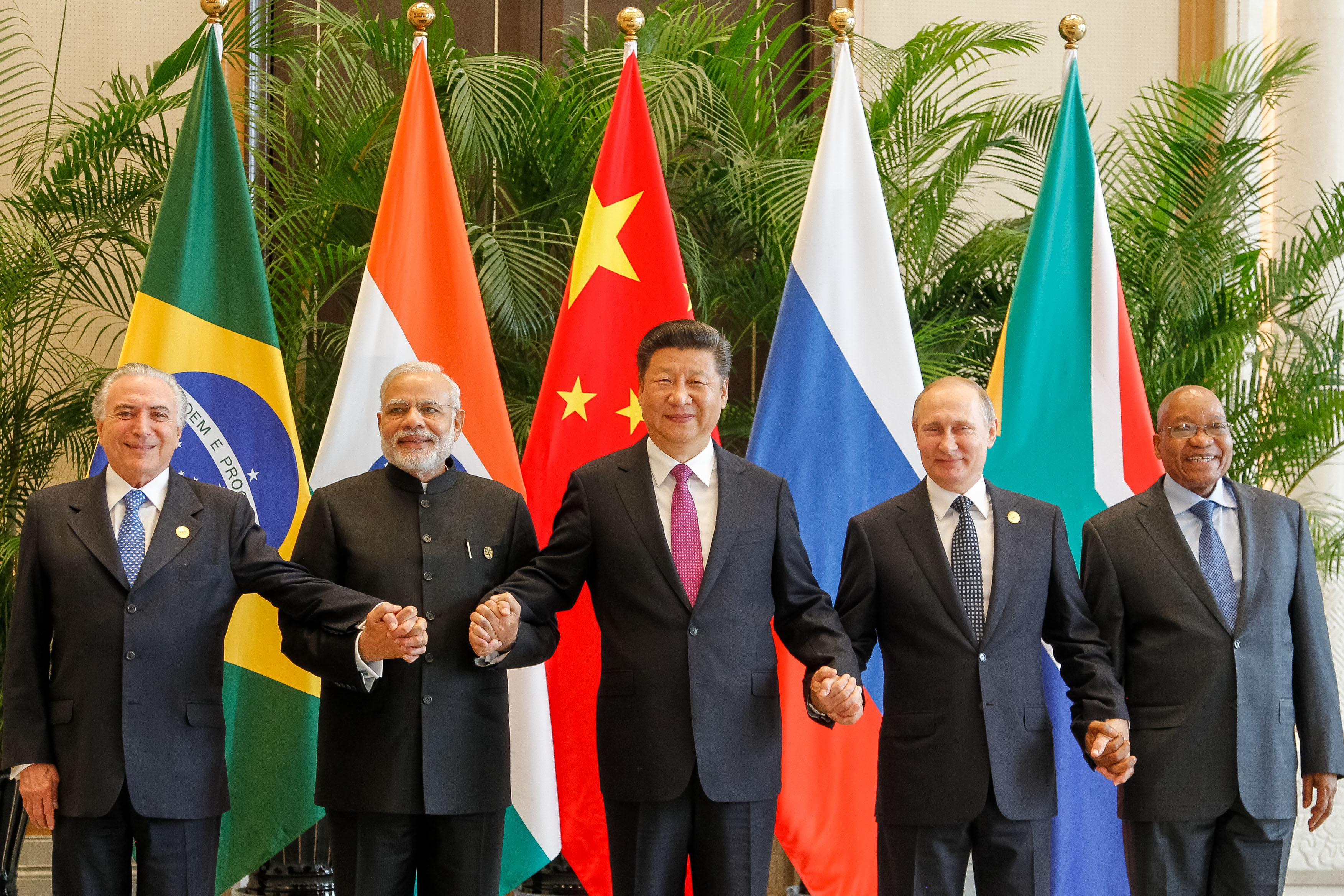 Hangzhou - China, 04/09/2016. Leaders of the BRICS.